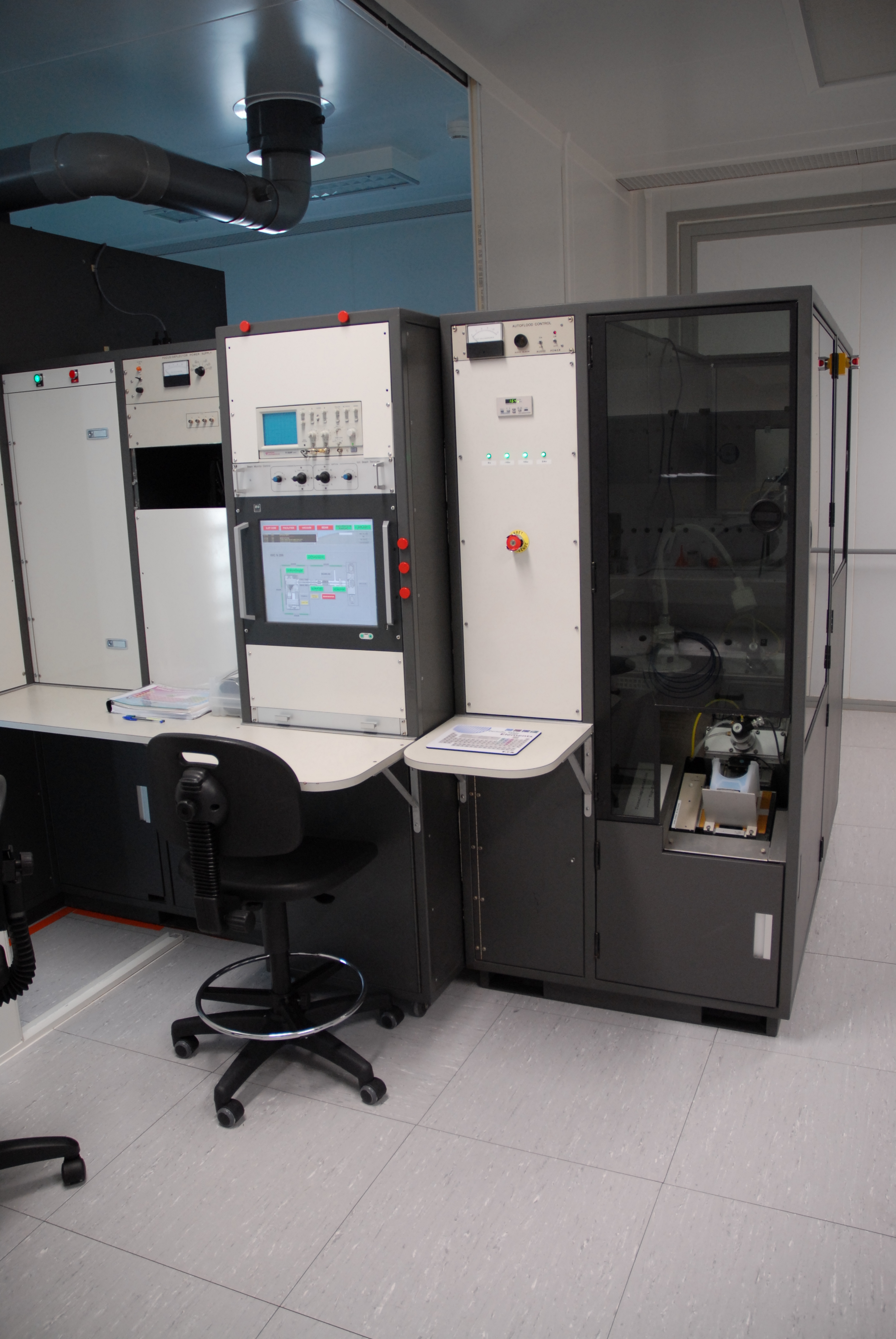 Ion implantation machine front end at LAAS-CNRS technological facility in Toulouse, France.